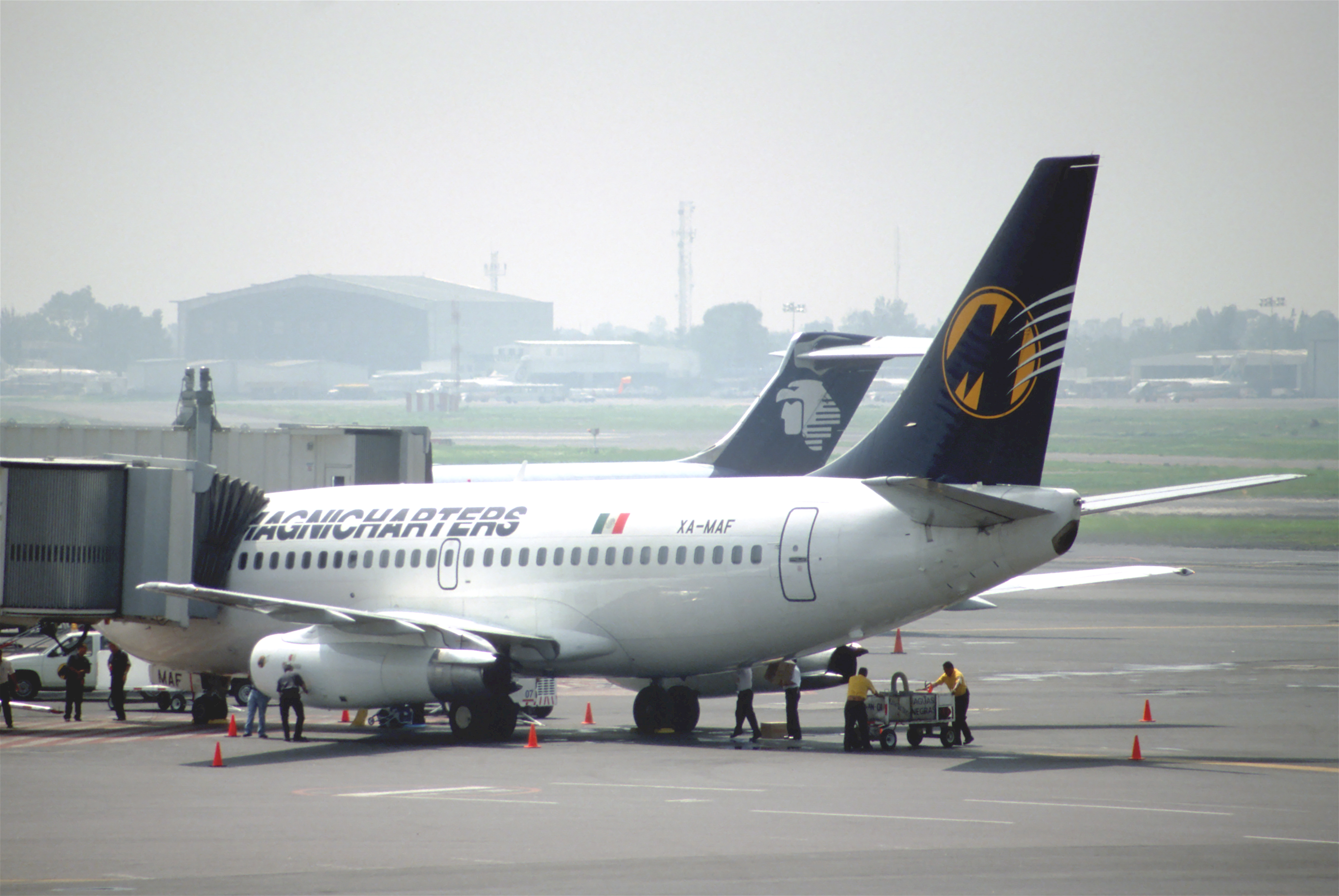 250ac - Magnicharters Boeing 737-2K9; XA-MAF@MEX;24.07.2003